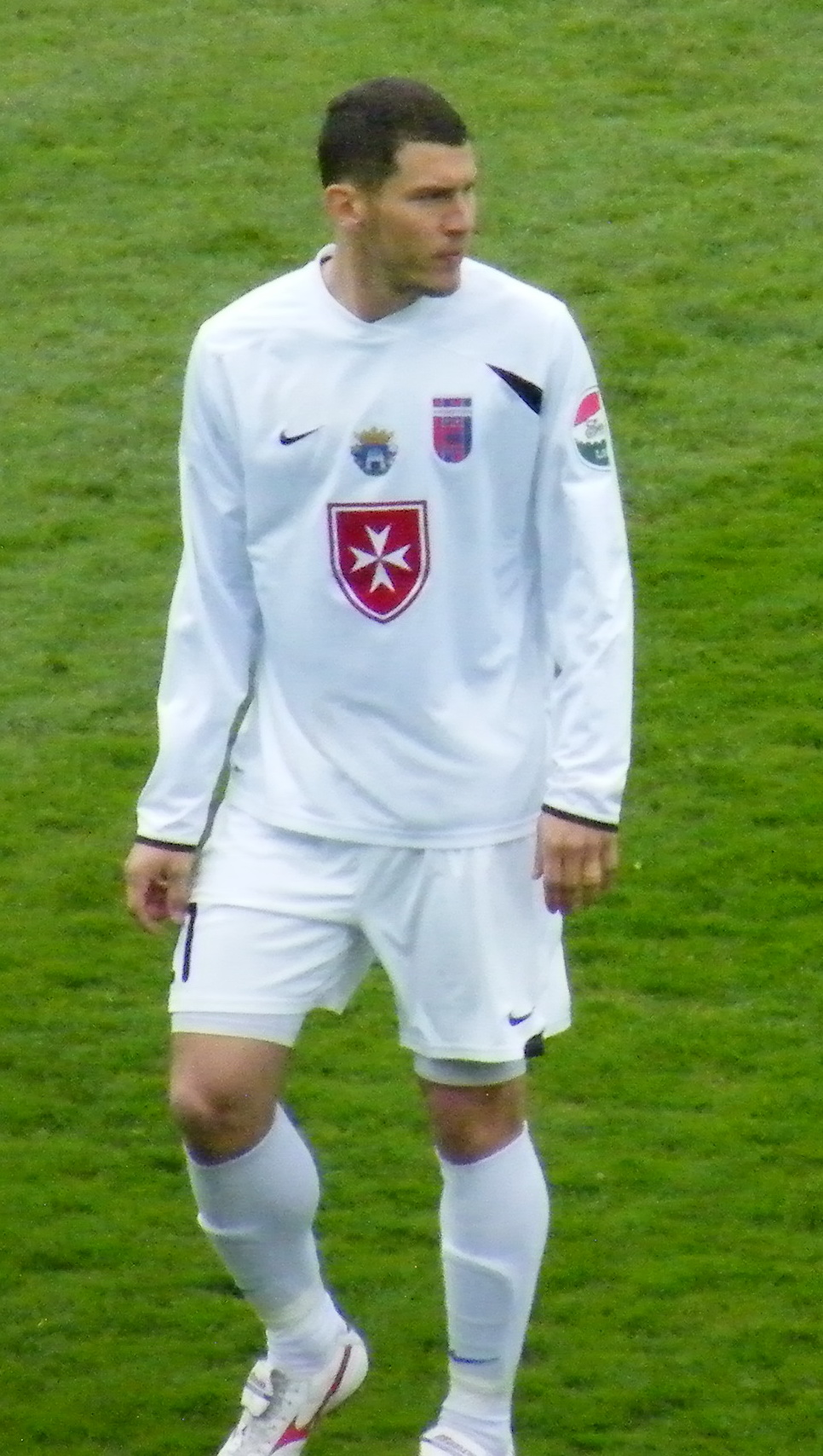 André Alves dos Santos Brazilian football player